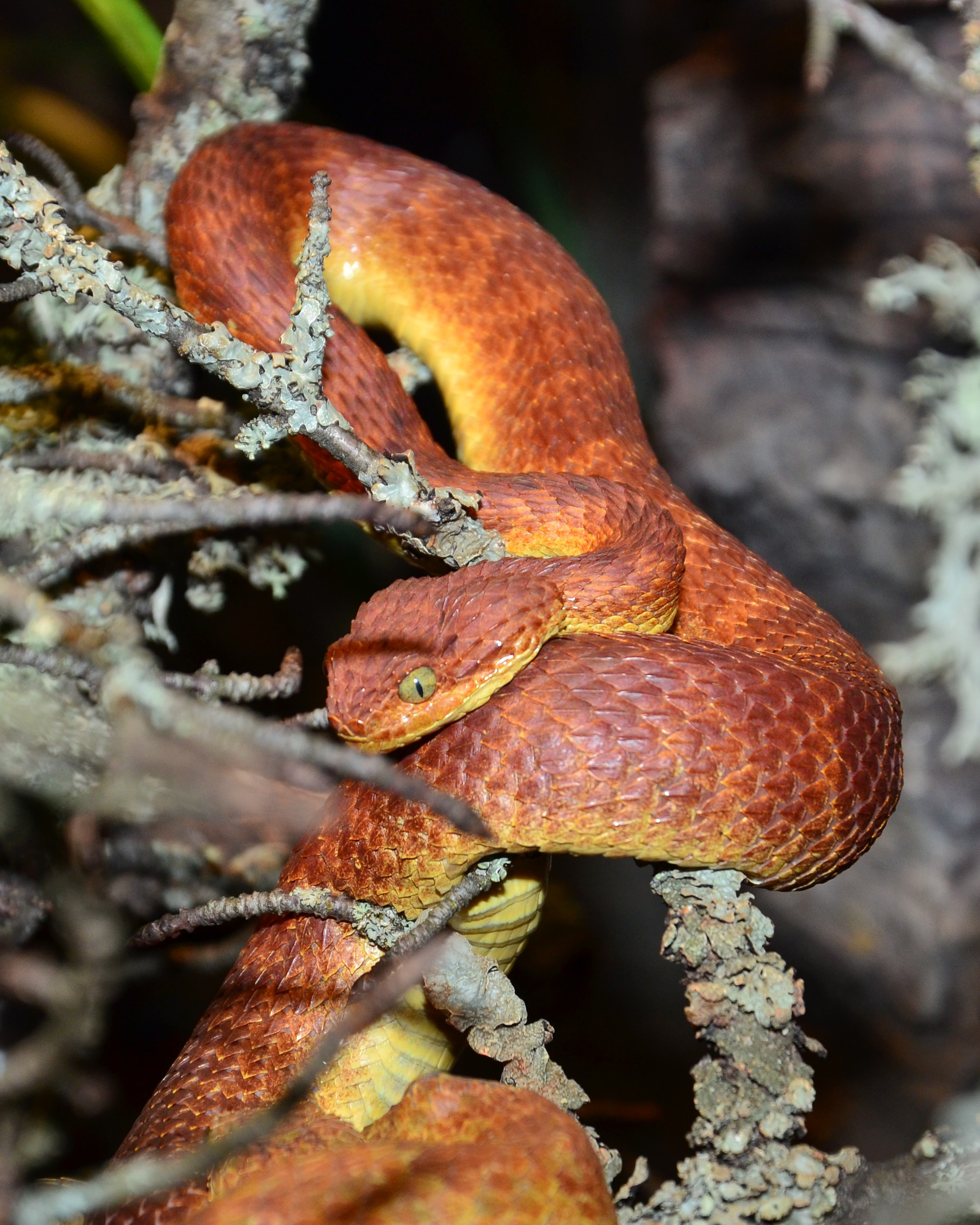 Variable bush viper